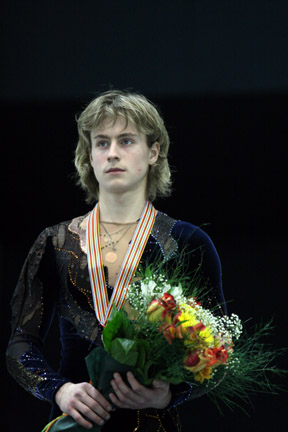 Artem BORODULIN the men's medal ceremony at the 2008 World Junior Championships.